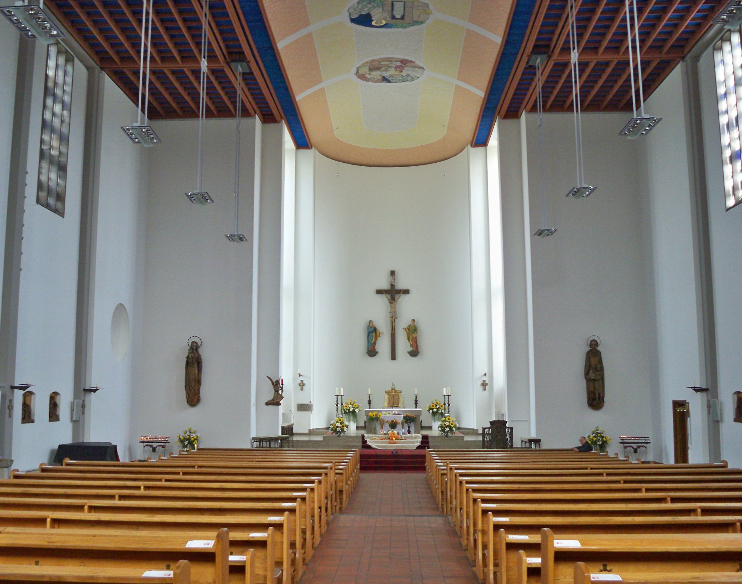 Wolfsburg, Lower Saxony, St. Christophorus, Roman-catholic church, view towards altar